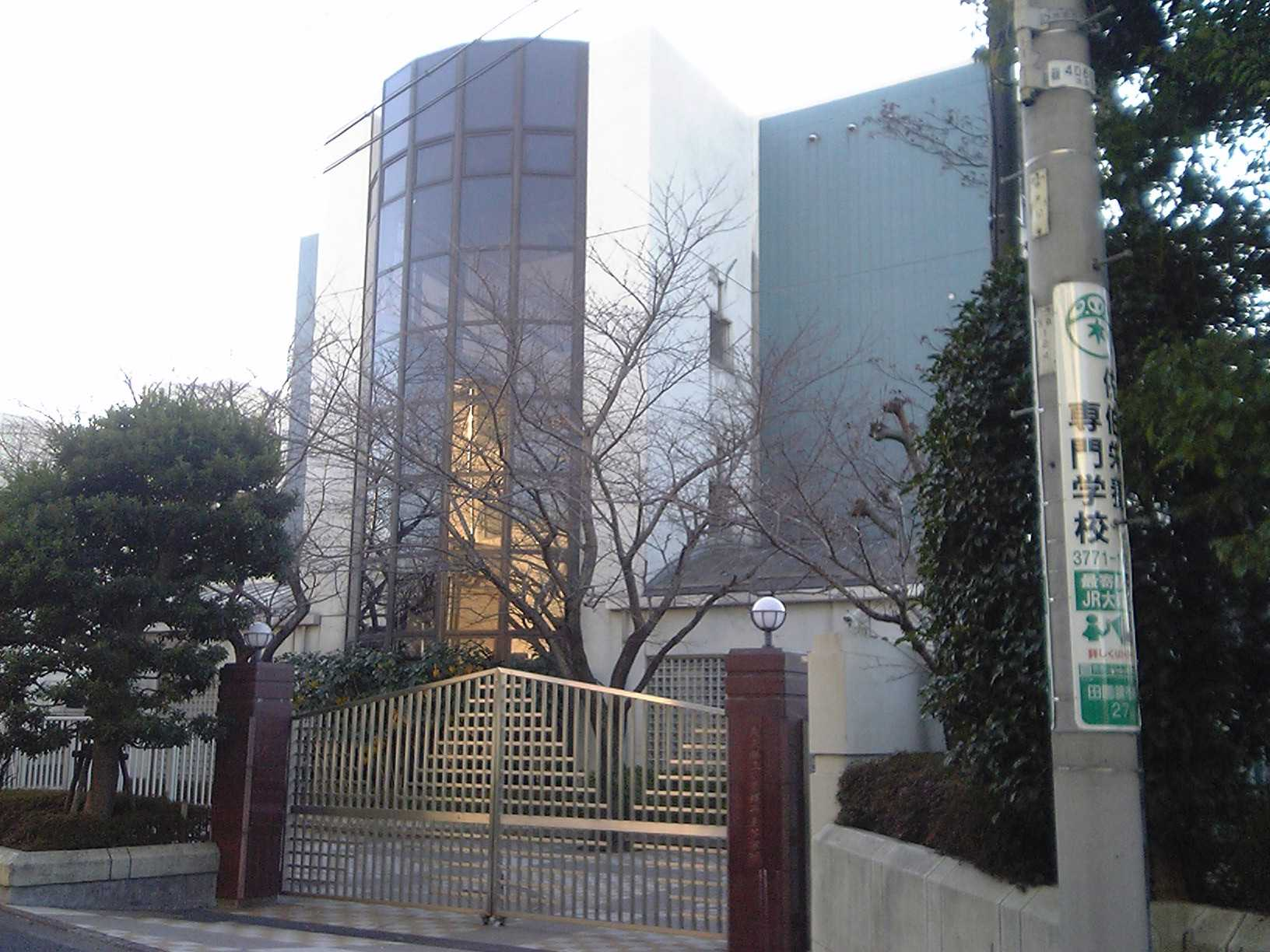 Den Enchofu High School (taken on January 2, 2008)